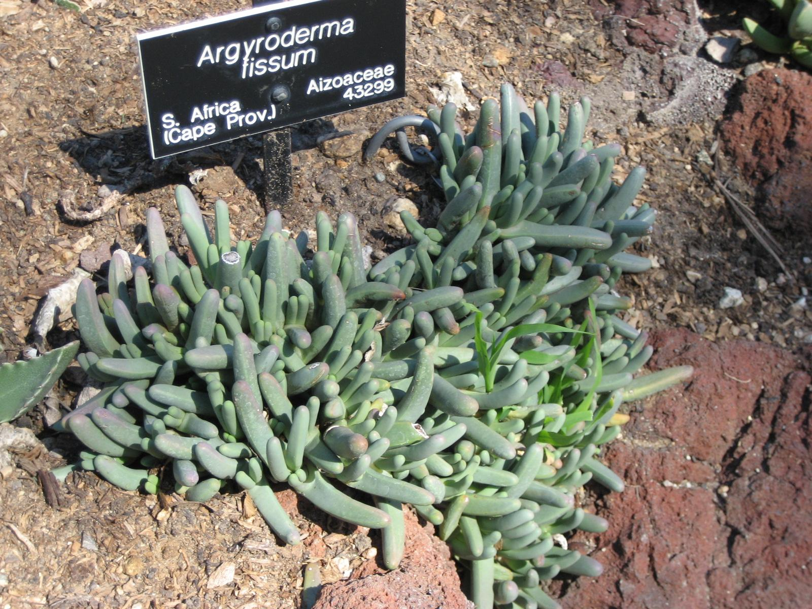 Photographed at Huntington Gardens (Los Angeles) in March